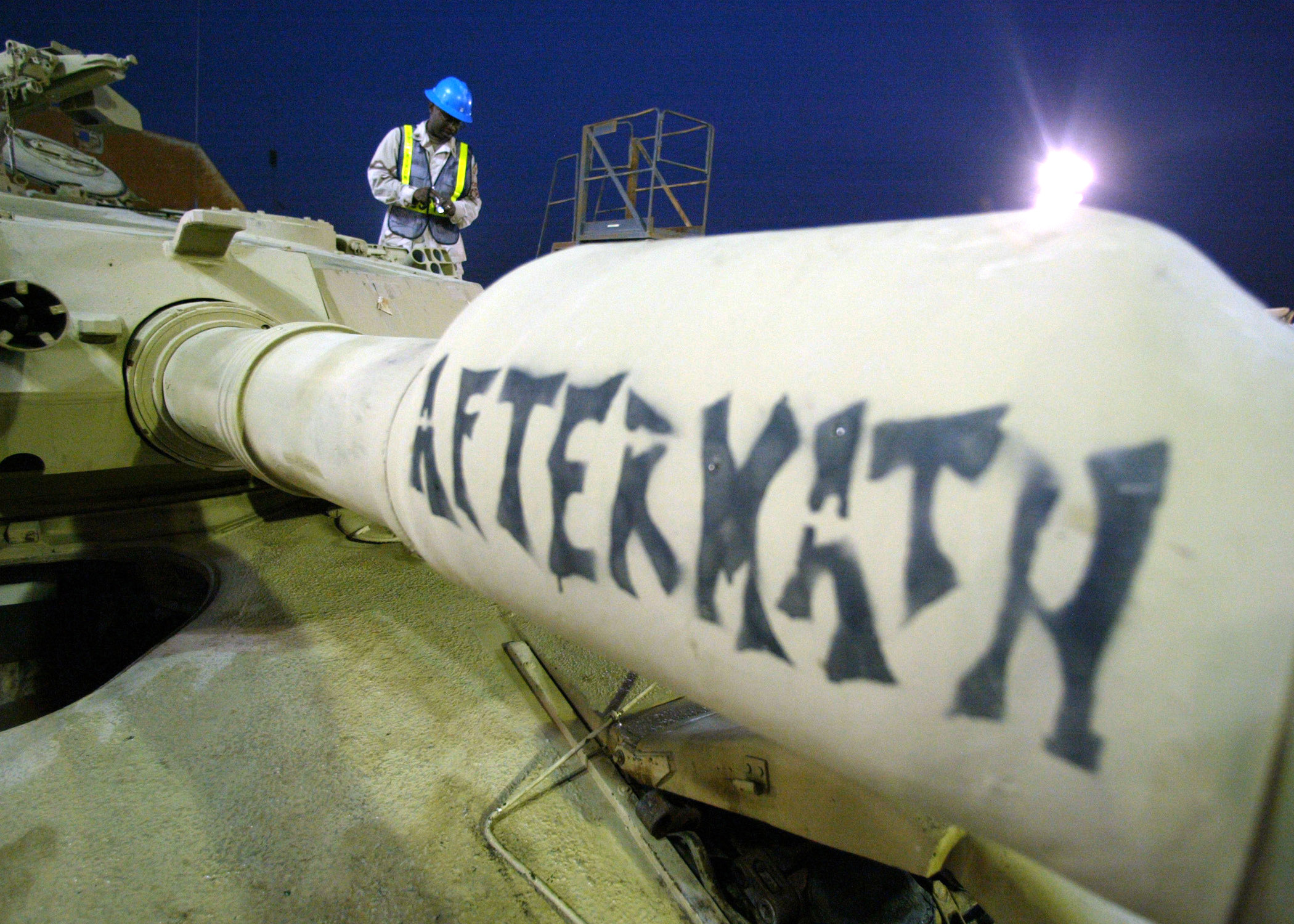 Kuwait (Nov. 30, 2005) - Information Technician 1st Class Bruce Nixon, assigned to Navy Customs Battalion Papa, inspects an Army M1A1 Abrams tank for sand and round casings at the wash racks at Camp Arifjan in Kuwait. Navy Customs Battalion Papa is a mobilized unit consisting of 450 reservists in support of the global war on terrorism. U.S. Navy photo by Photographer's Mate 2nd Class Gregory D. Devereaux (RELEASED)